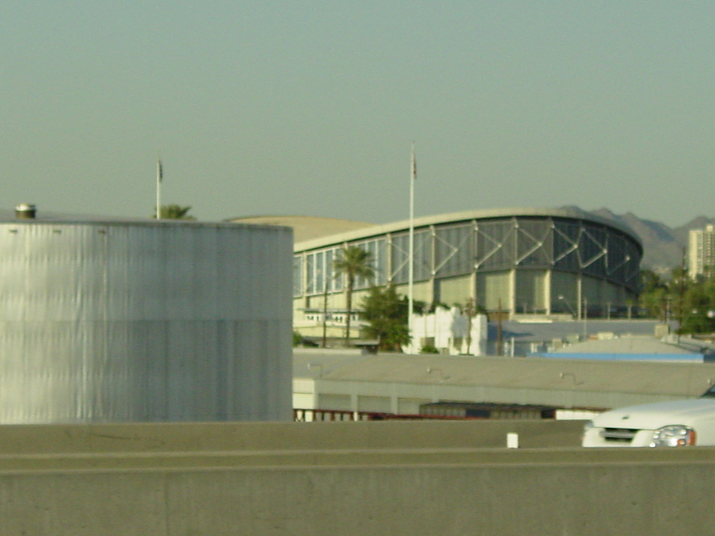 Arizona Veterans Memorial Coliseum — in Encanto Village, central Phoenix, Arizona. Taken by me, Pacman5.